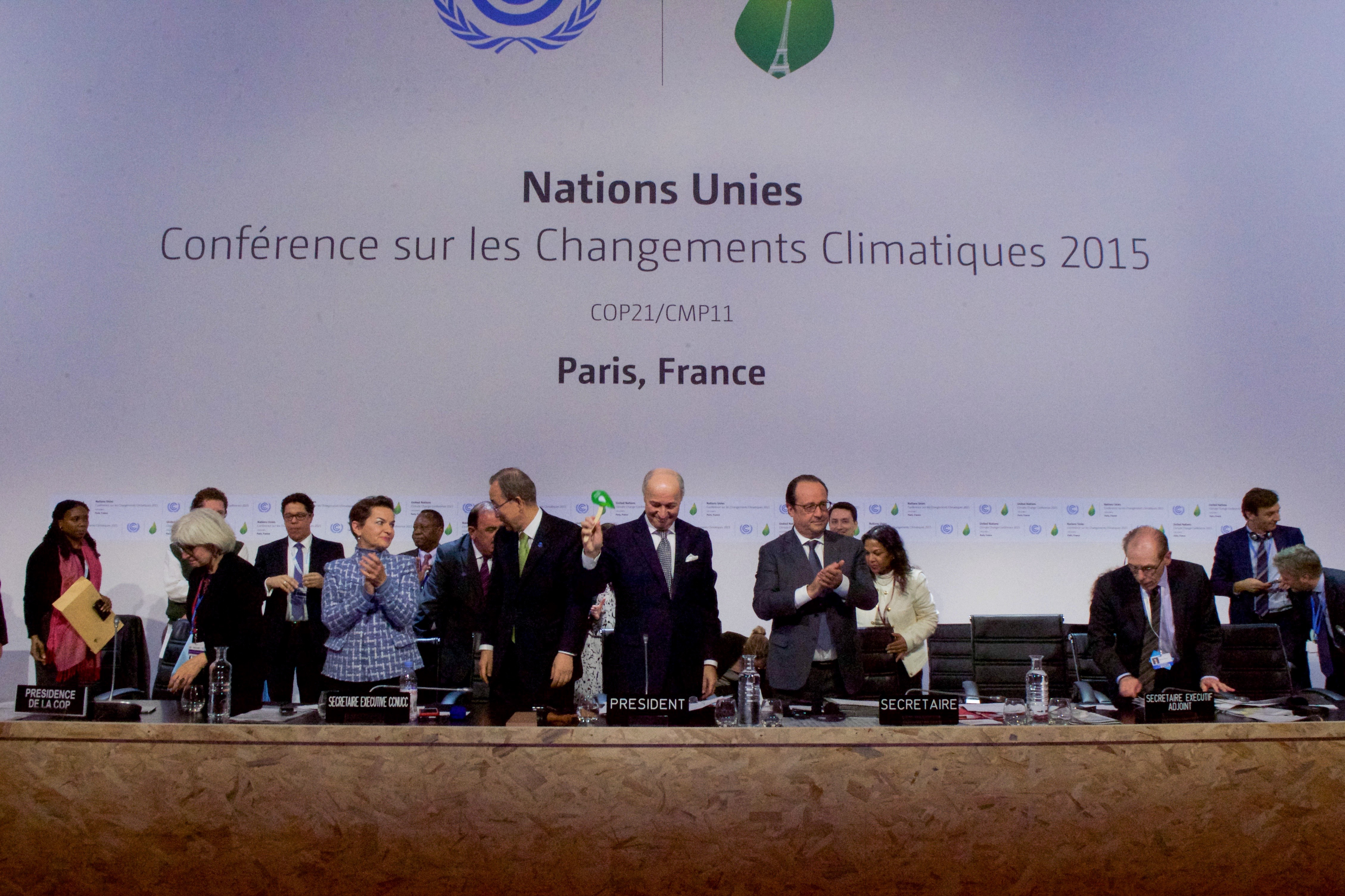 French Foreign Minister Laurent Fabius - President of the COP21 climate change conference - bangs down the gavel on 12 December 2015, after representatives of 196 countries approved a sweeping environmental agreement during a multinational meeting at LeBourget Airport in Paris, France.